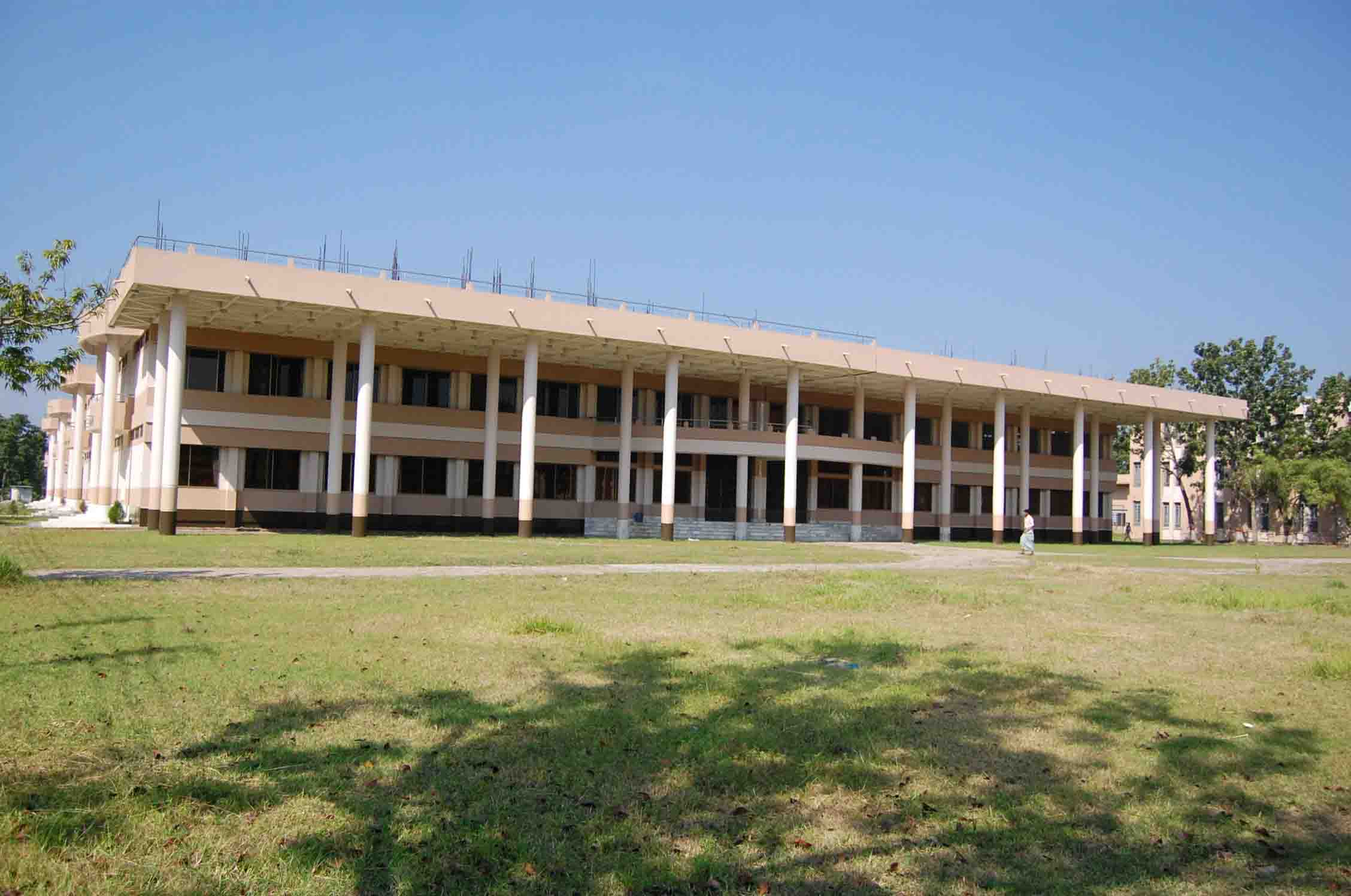 KUET Campus